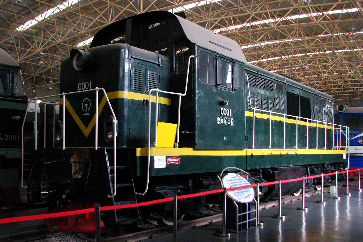 A China Railways Dongfanghong (The East Is Red) 5 diesel locomotive preserved in China Railway Museum.